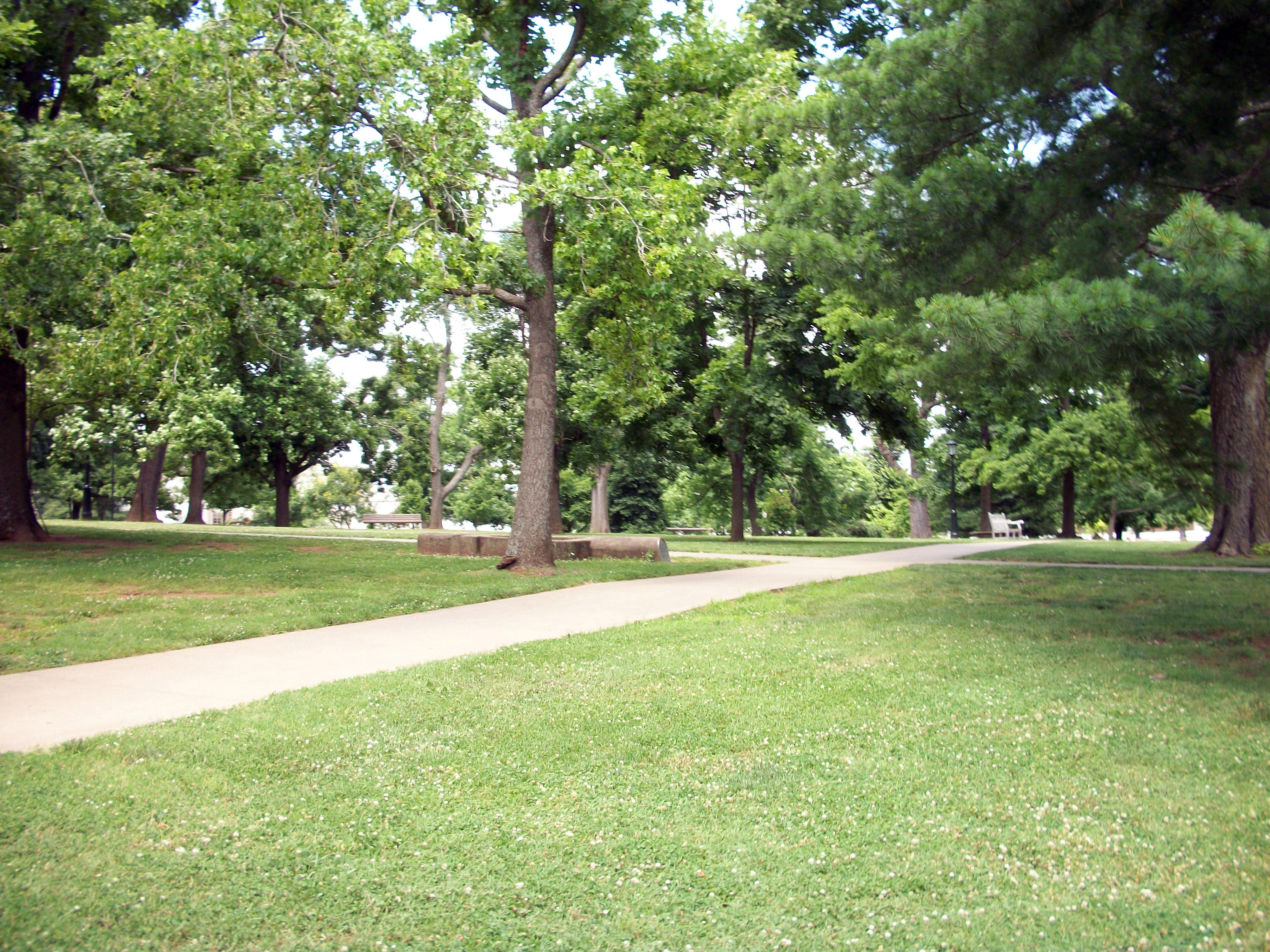 Old Main Lawn on the University of Arkansas campus. The lawn is part of the Campus Historic District on the National Register of Historic Places.